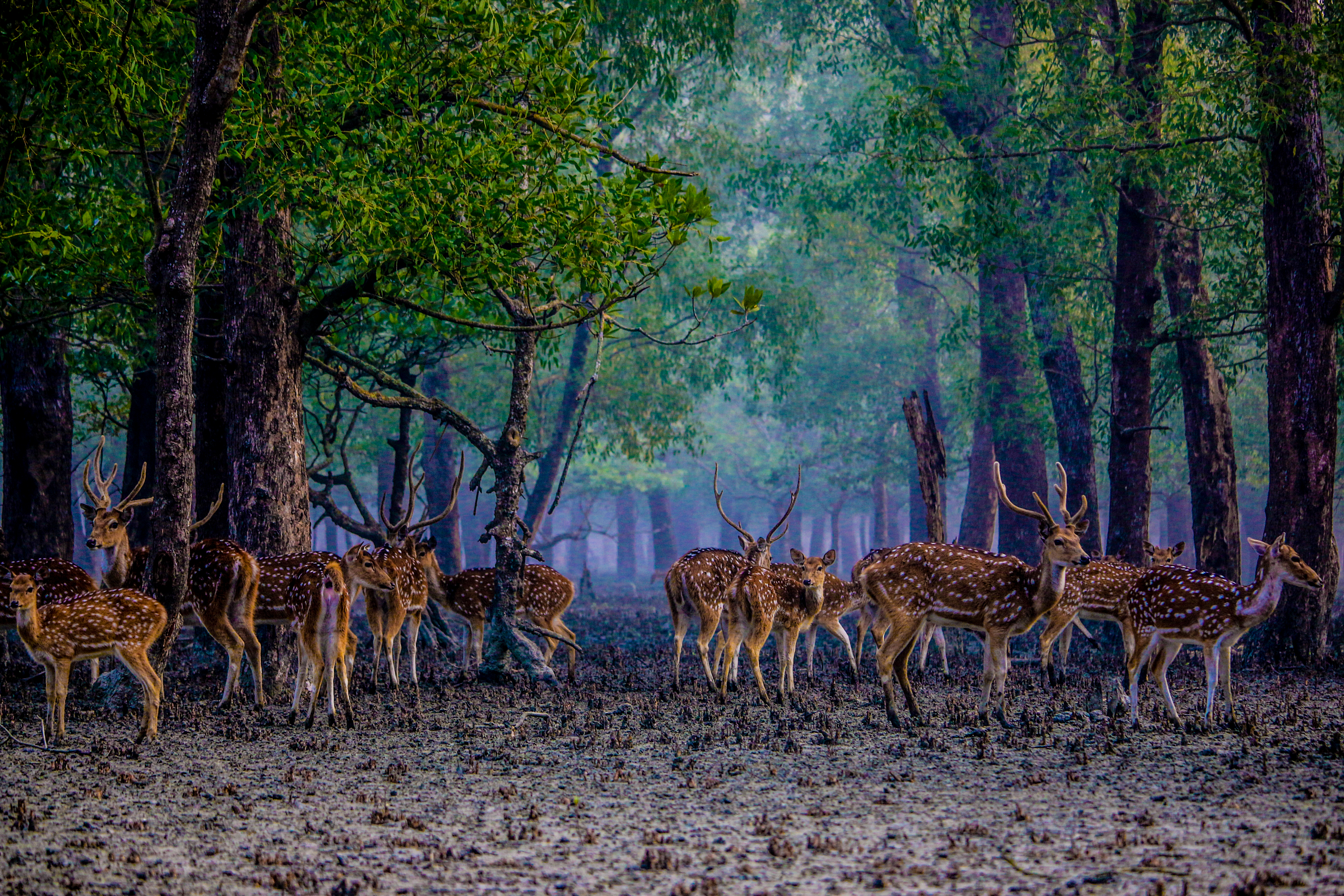 Sundarbans Southern Wildlife Sanctuary